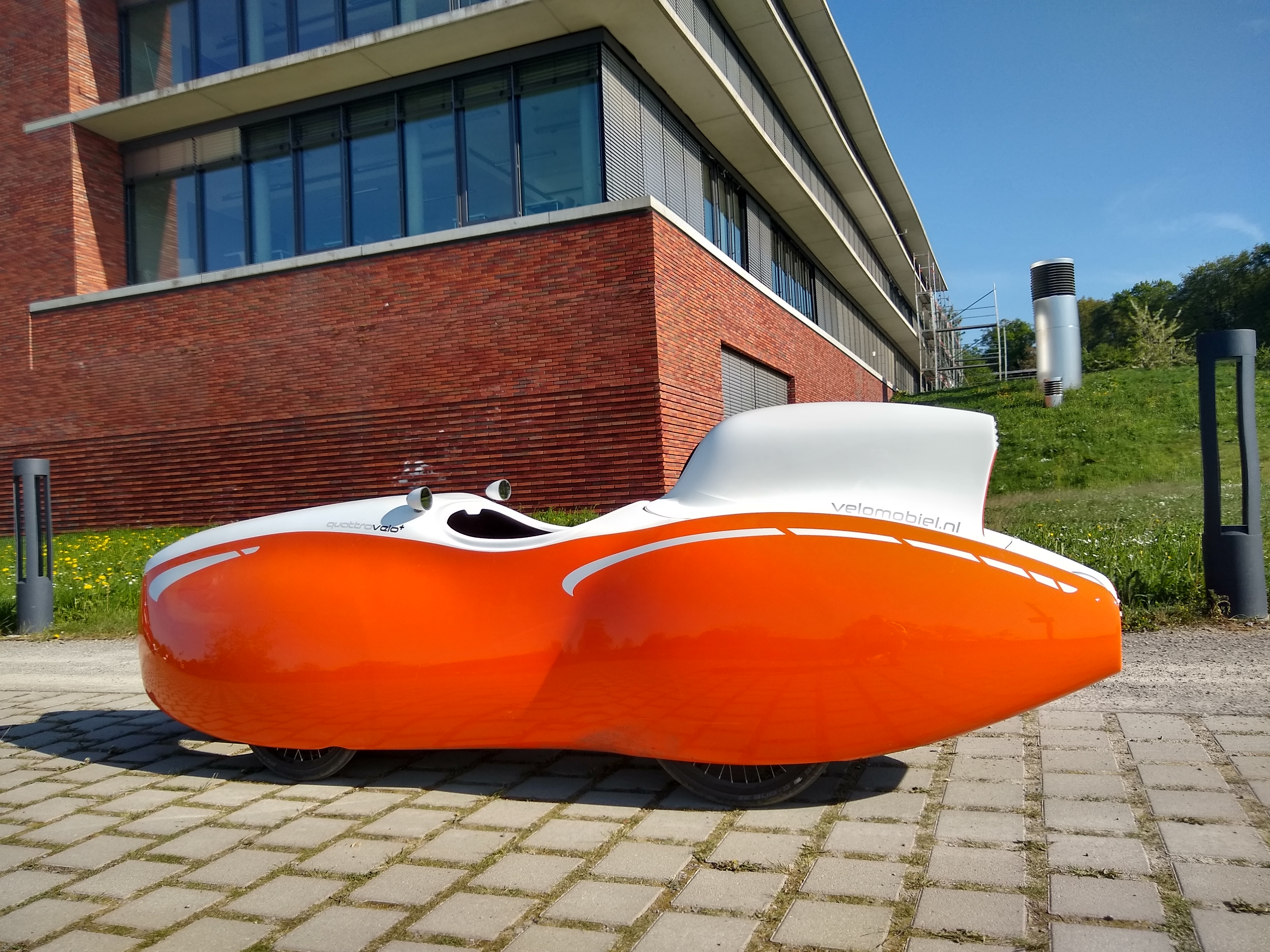 QuattroVeloPlus